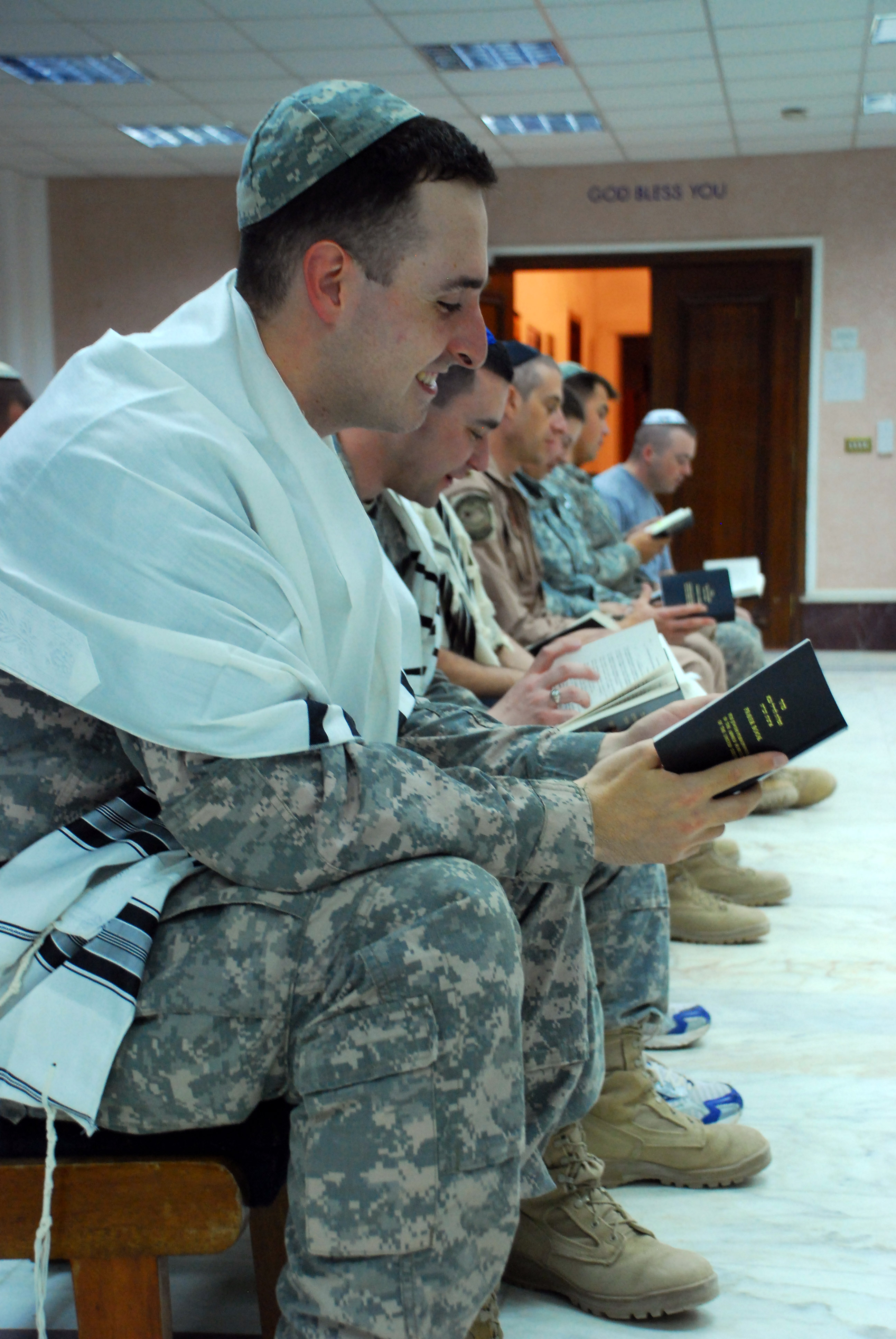 Staff Sgt. Xhevair Maskuli, external influence analyst, Multi-National Corps-Iraq, follows along in the Jewish Prayer Book, Victory Chapel, Camp Victory, Sept. 11.